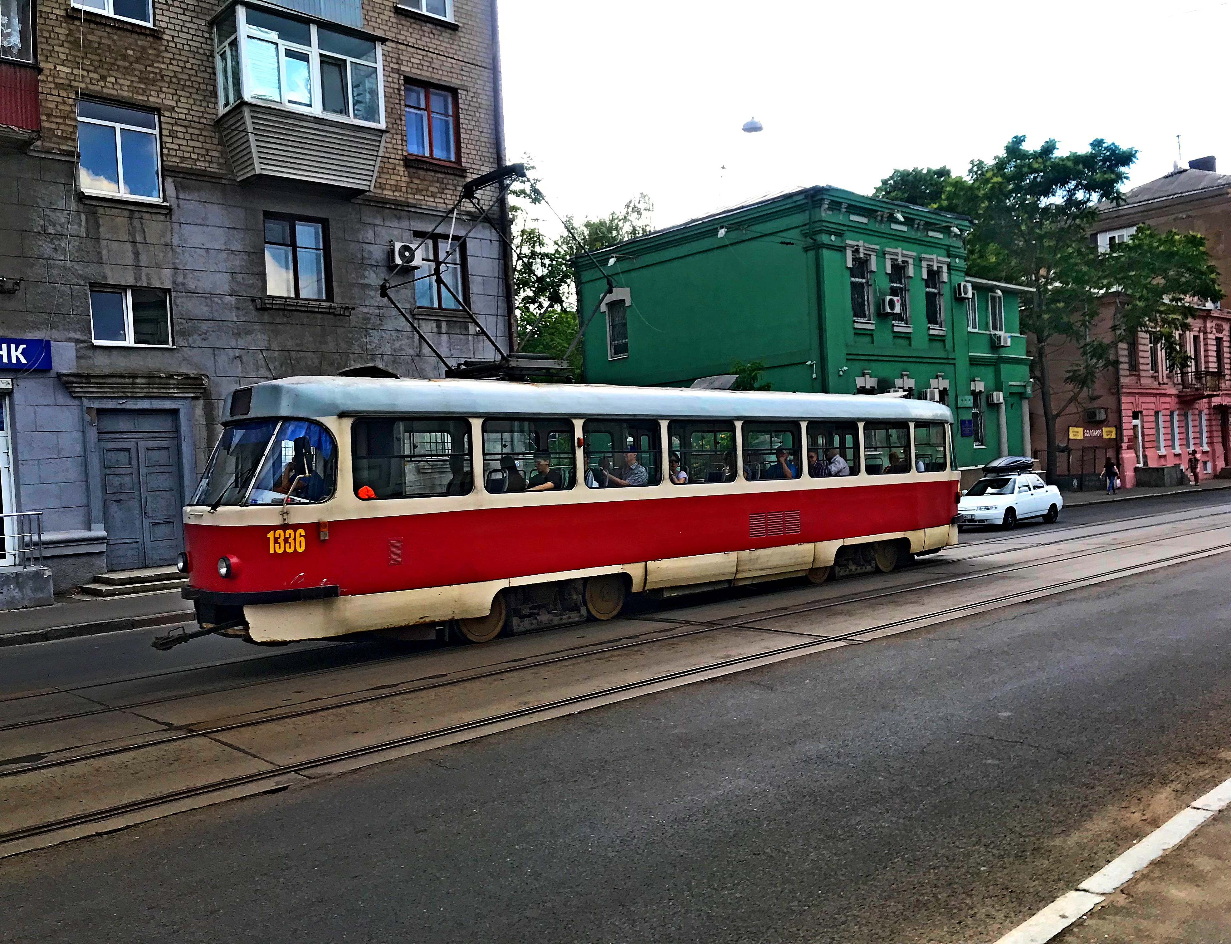 Tatra T3 running on Chernyshevskovo street in Dnipro, Ukraine.